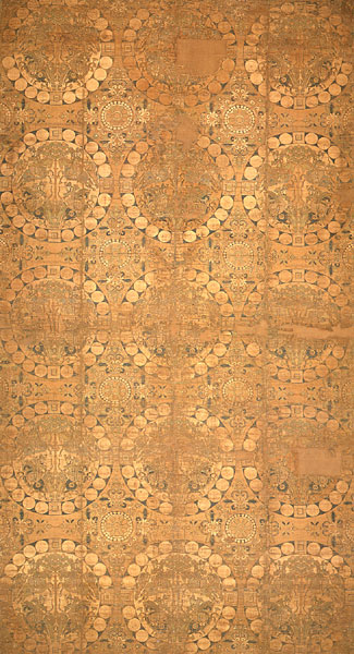 Brocade with lion hunting (四騎獅子狩文錦, shiki shishi karimonkin)